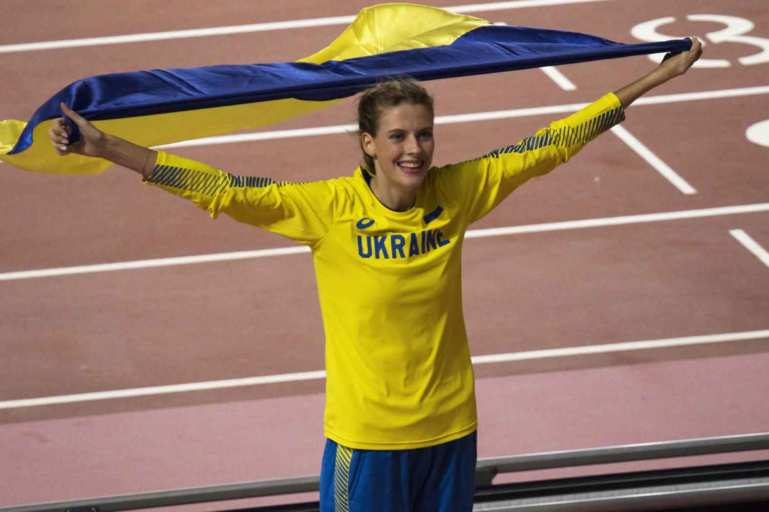 Yaroslava Mahuchikh after the high jump final with a silver medal.